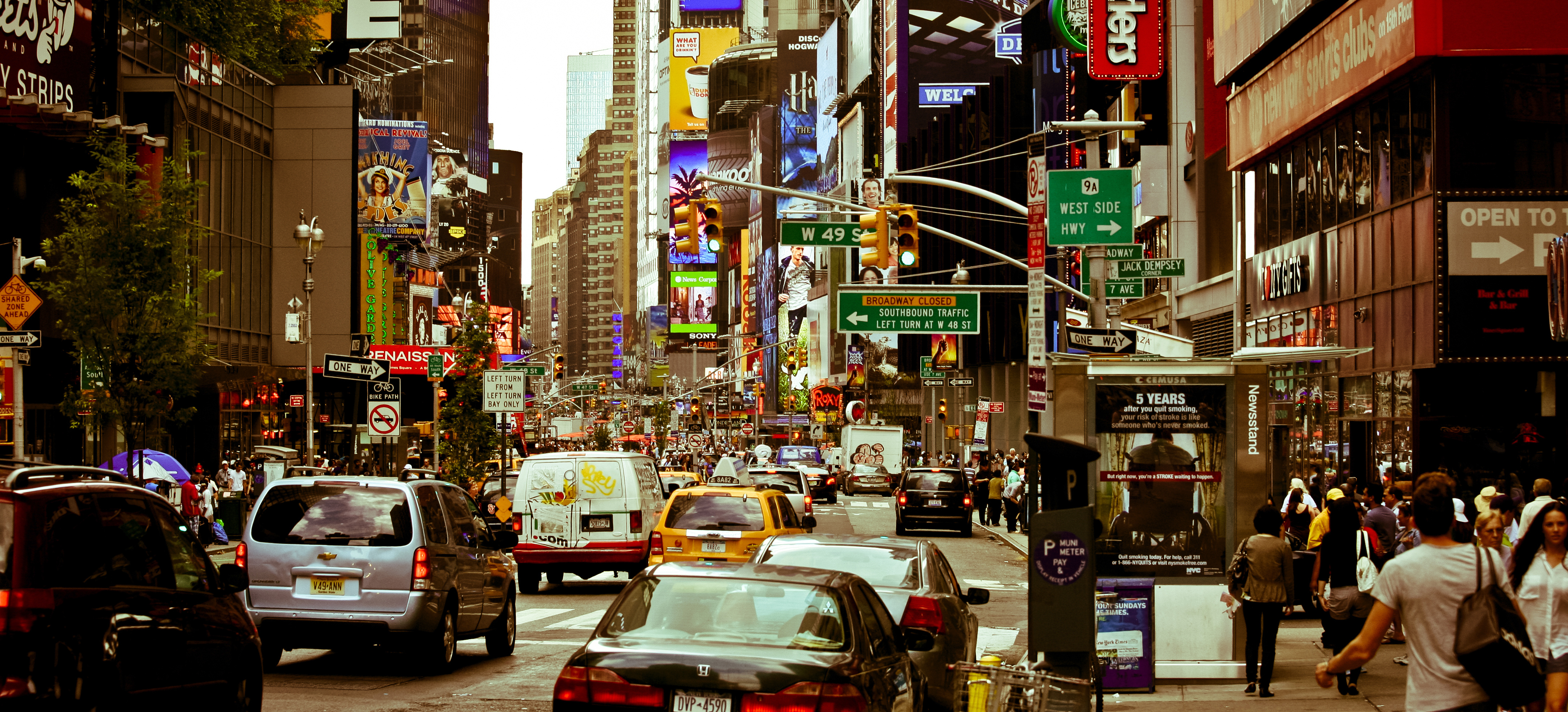 Cinematic New York City